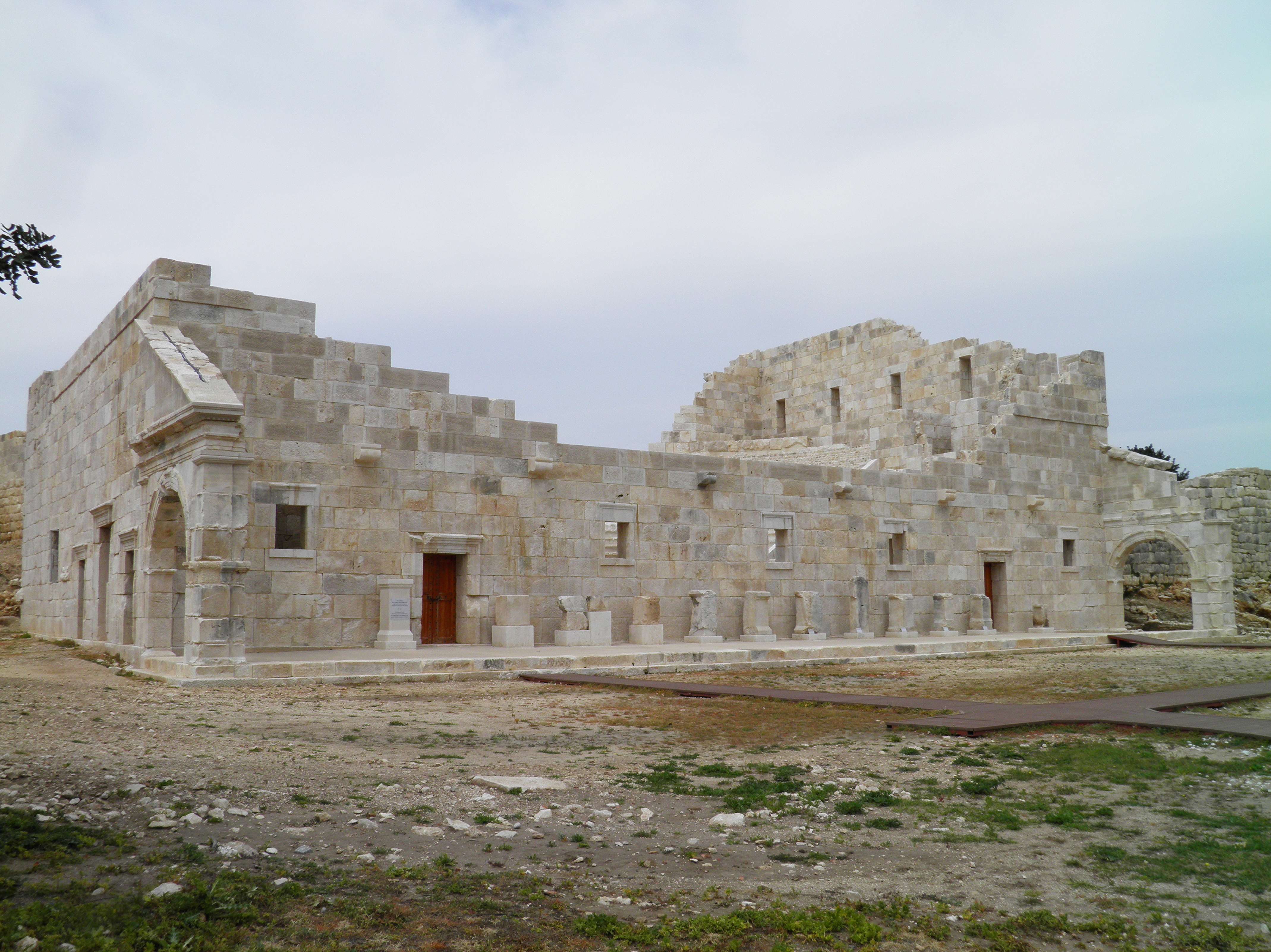 View of the exterior of the restored Council Chamber (Bouleuterion), Patara, Turkey